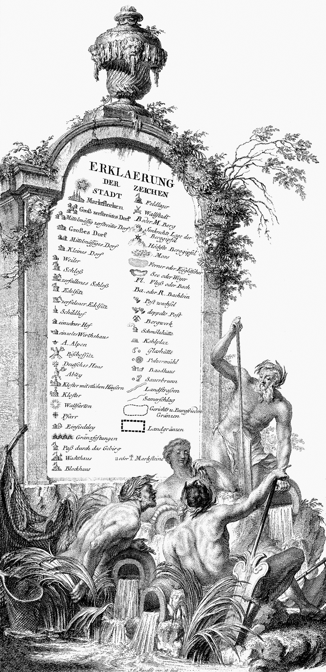 Atlas Tyrolensis Detail